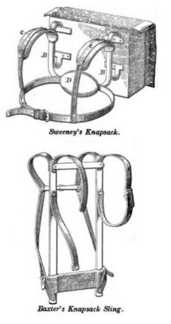 Two external frame knapsack designs from the 1860s Captioned As { }